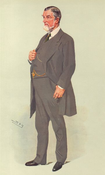 Men of the Day No.1165: Caricature of Sir Theodore Fry MP. Caption reads: "Not a Small Fry"